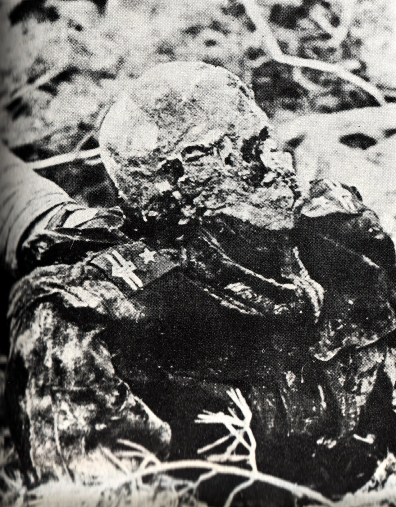 Photo from 1943 exhumation of mass grave of polish officers killed by NKVD in Katyń Forest in 1940.